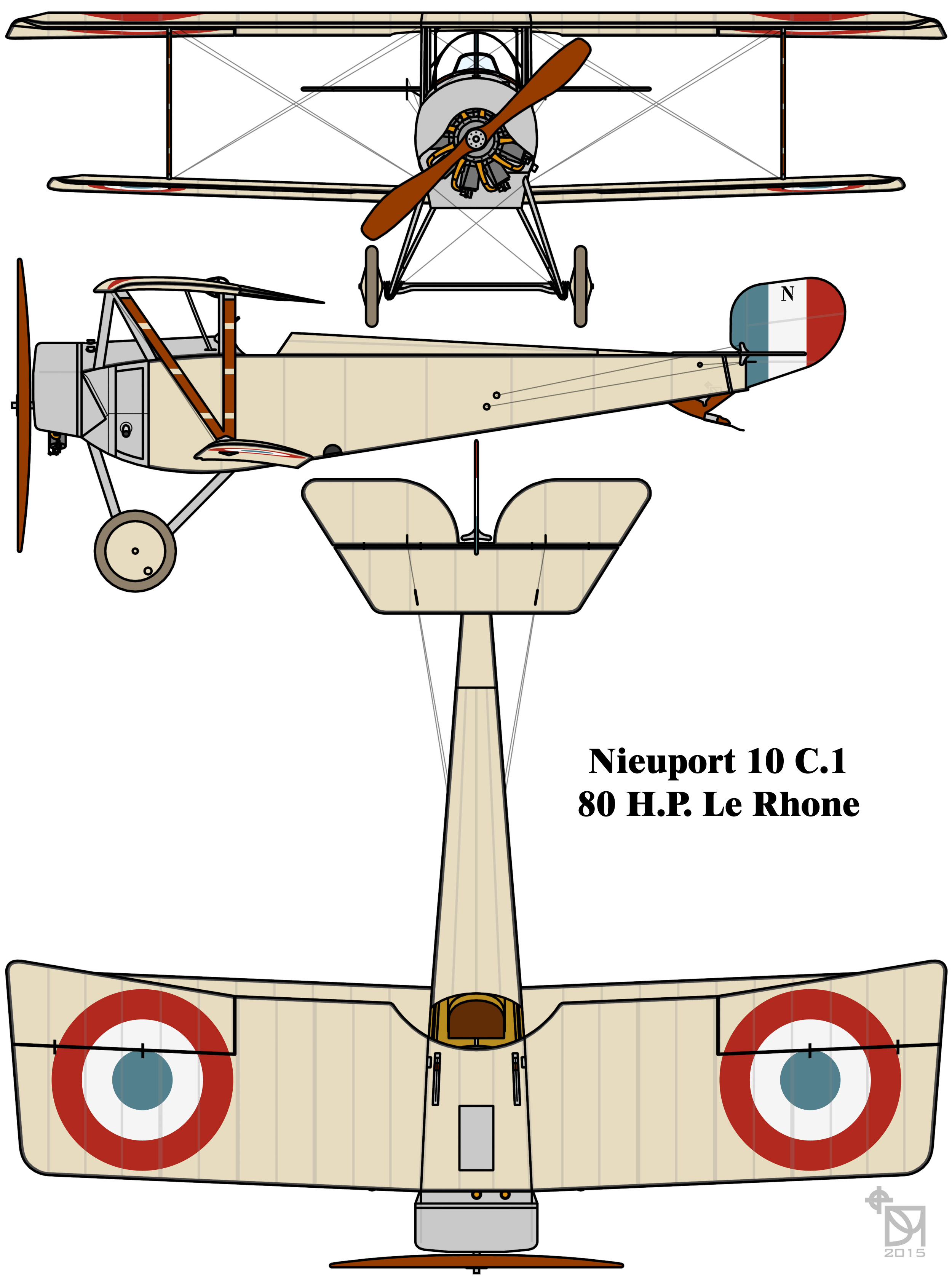 Nieuport 10 C.1 French First World War single seat fighter sesquiplane colour drawing